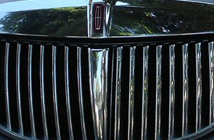 Grill with embleme cut from 1998 Lincoln Town Car.